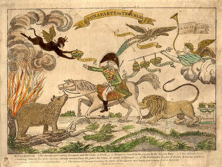 Amos Doolittle: "Bonaparte in Trouble" (allegory of grasping at the various crowns of Europe — including the crown of Russia being offered by the Devil — while being harassed by animals representing various nations).